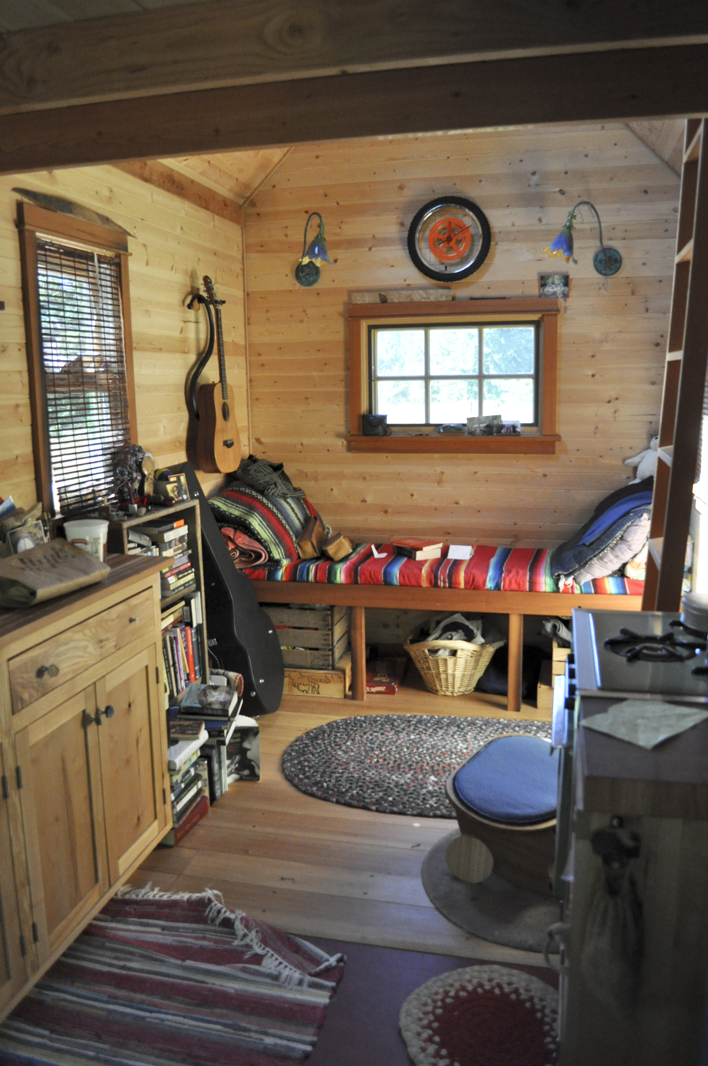 The interior of a tiny, mobile house in Portland, Oregon.